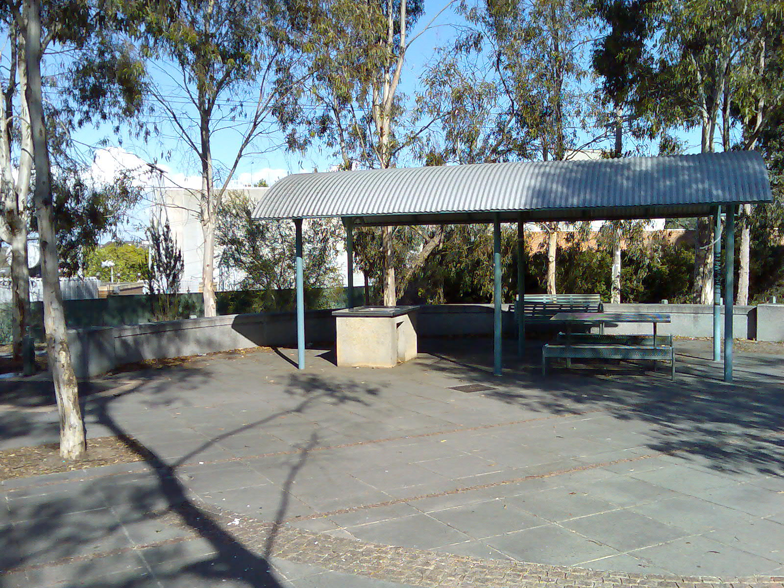 Taken by- Andrew Kerr